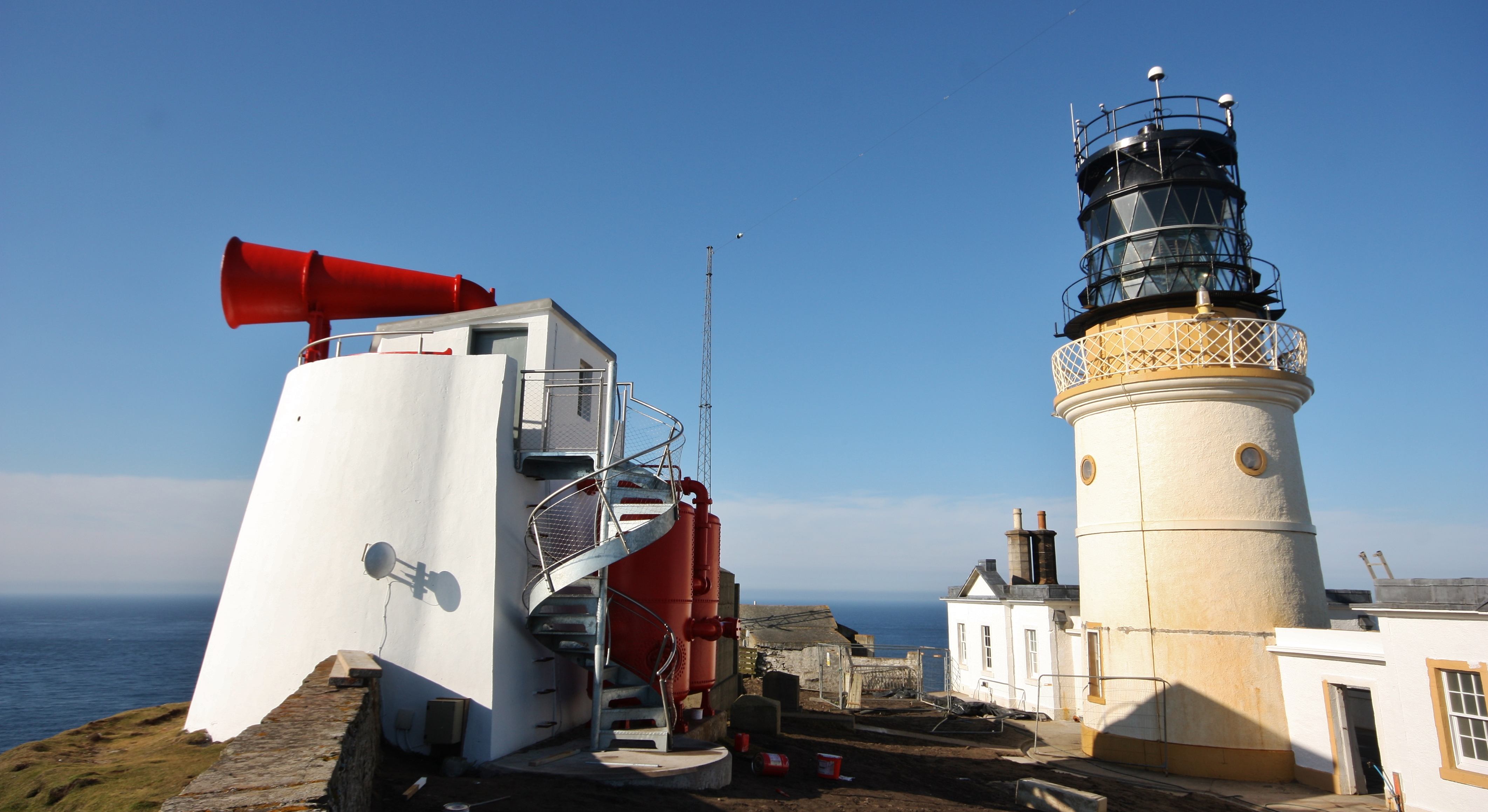 An update on how work is progressing, I believe first week of May for opening.